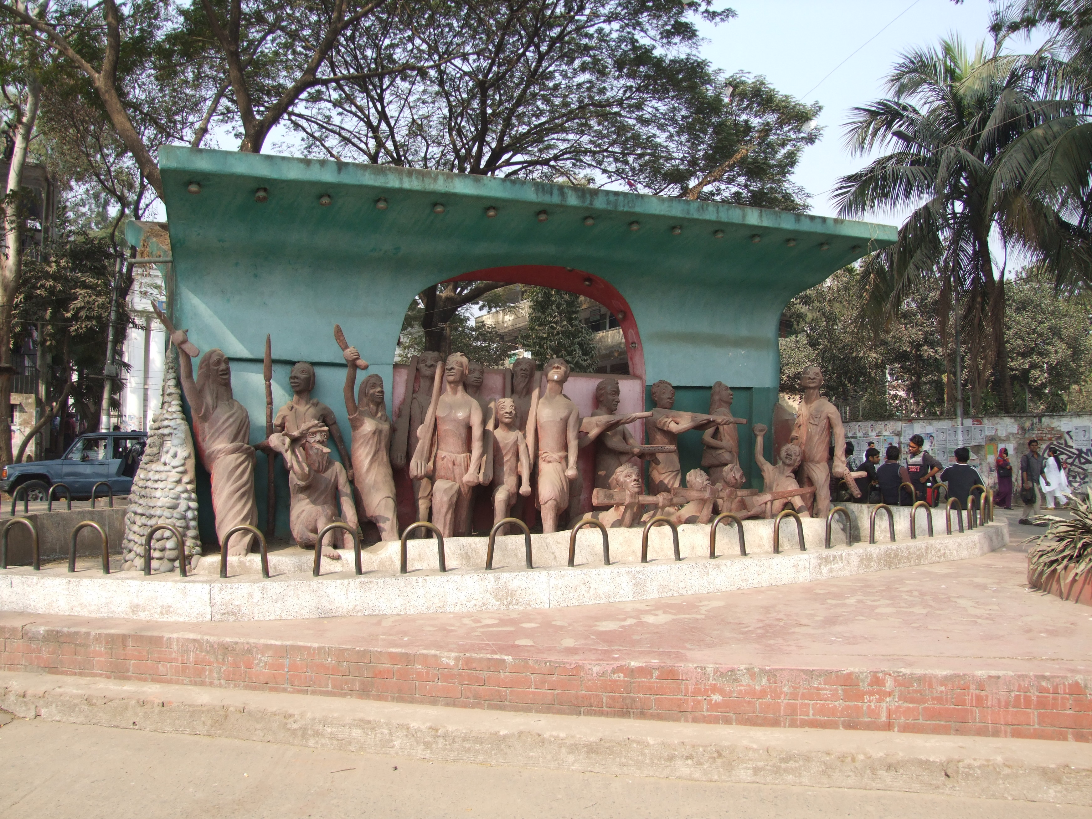 The Sculpture inside Jagannath University campus by Rasha. Jagannath University is in Old Dhaka, Babngladesh.